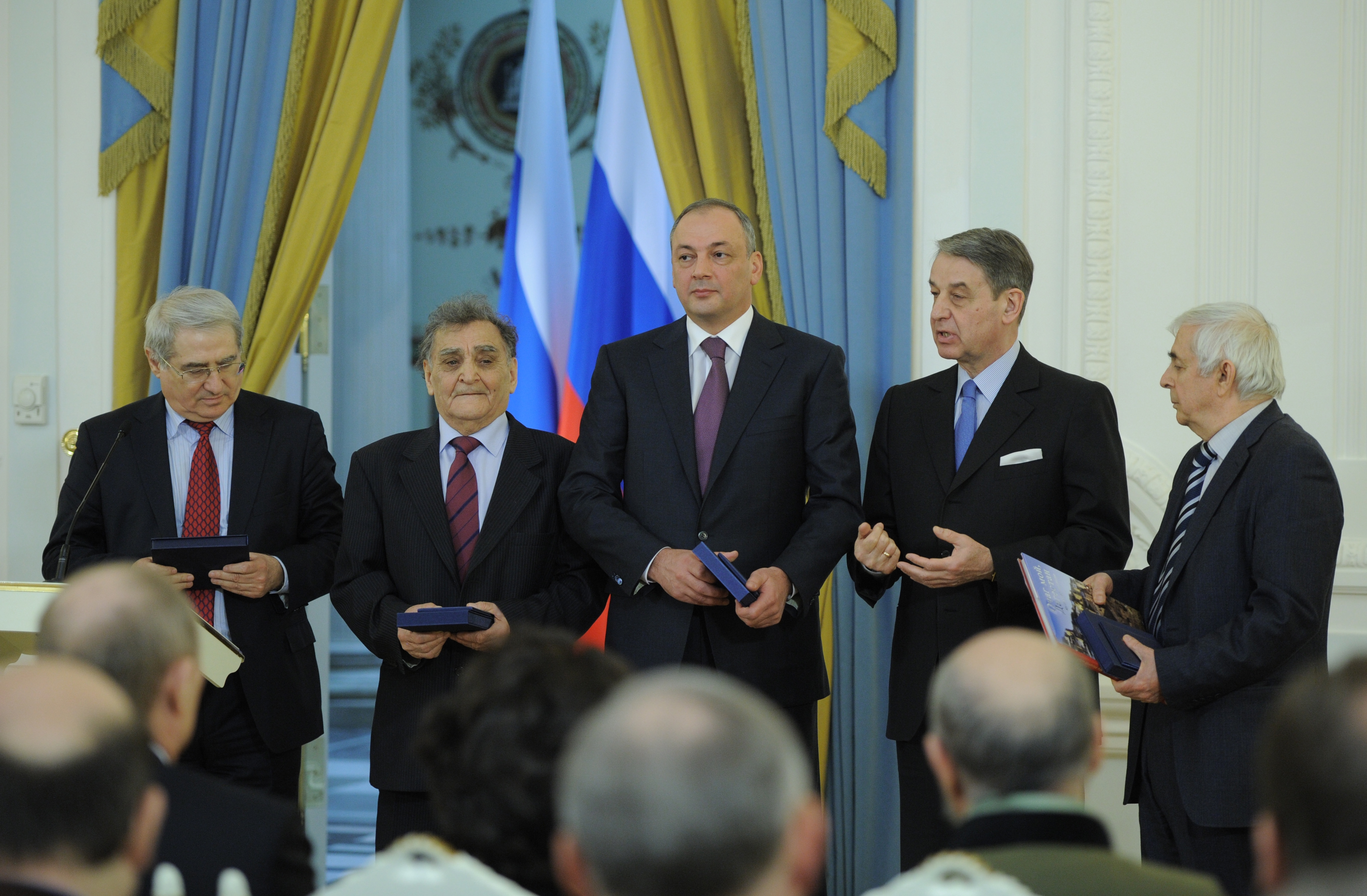 From left to right: Deputy Chairman of Dagestan Broadcasting Company Salam Khavchayev, orientalist Amri Shikhsaidov, President of Dagestan Magomedsalam Magomedov, Minister of Culture Alexander Avdeyev and President of the Rasul Gamzatov International Public Fund Gamzat Gamzatov during the awards ceremony of the 2011 Russian Government Prizes in Culture at the Reception House of the Government of the Russian Federation.